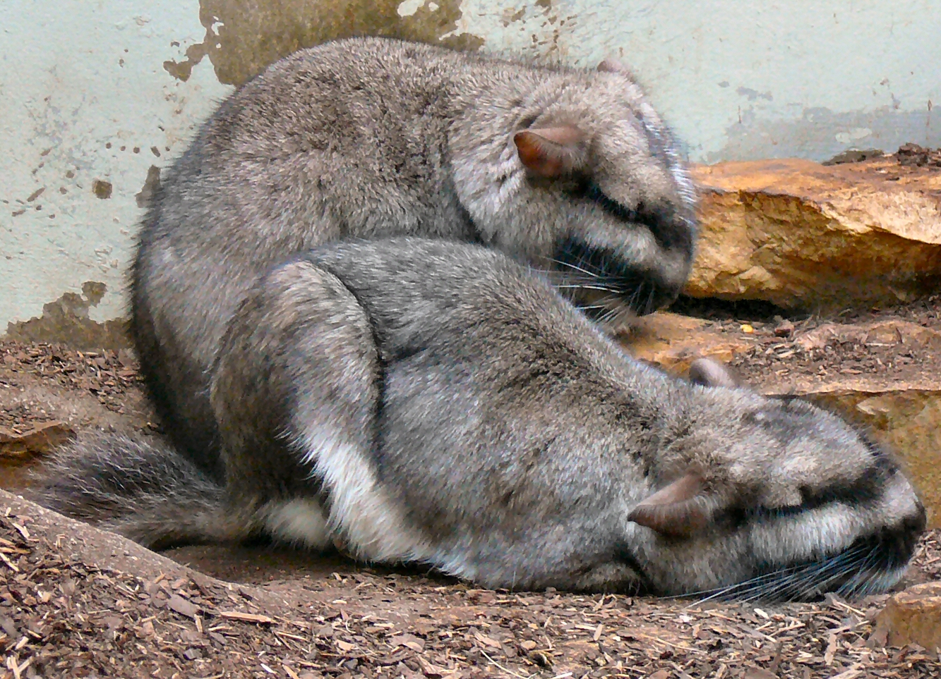 Two plains viscachas (Lagostomus maximus) resting. Wilhelma zoo - Stuttgart - Germany